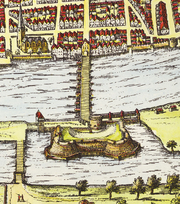 Part of a historical sight of the German town of Bremen (between 1572 and 1618)